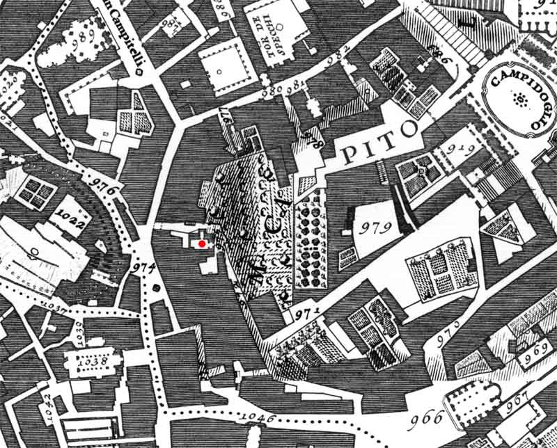 Chiesa di Santa Maria dei Saponari - Mapa di Nolli (1748)